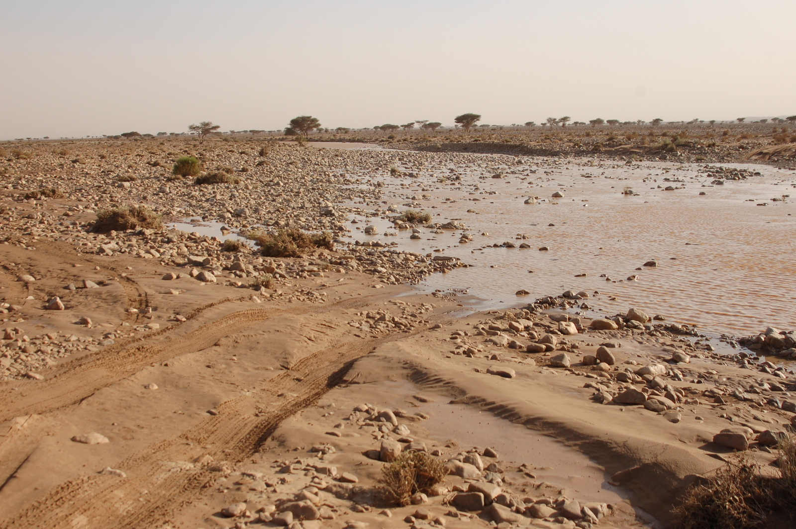 Small qued near Mhamid, Marocco after the big rains in March 2009.